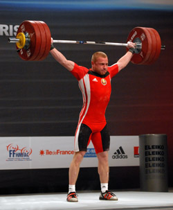 Andrei Rybakov snatches 178kg at the 2011 World Weightlifting Championships in Paris France.